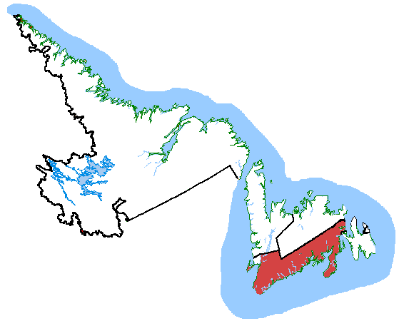 Map of the Random—Burin—St. George's electoral district. Based on Earl Andrew's maps, created by SimonP.